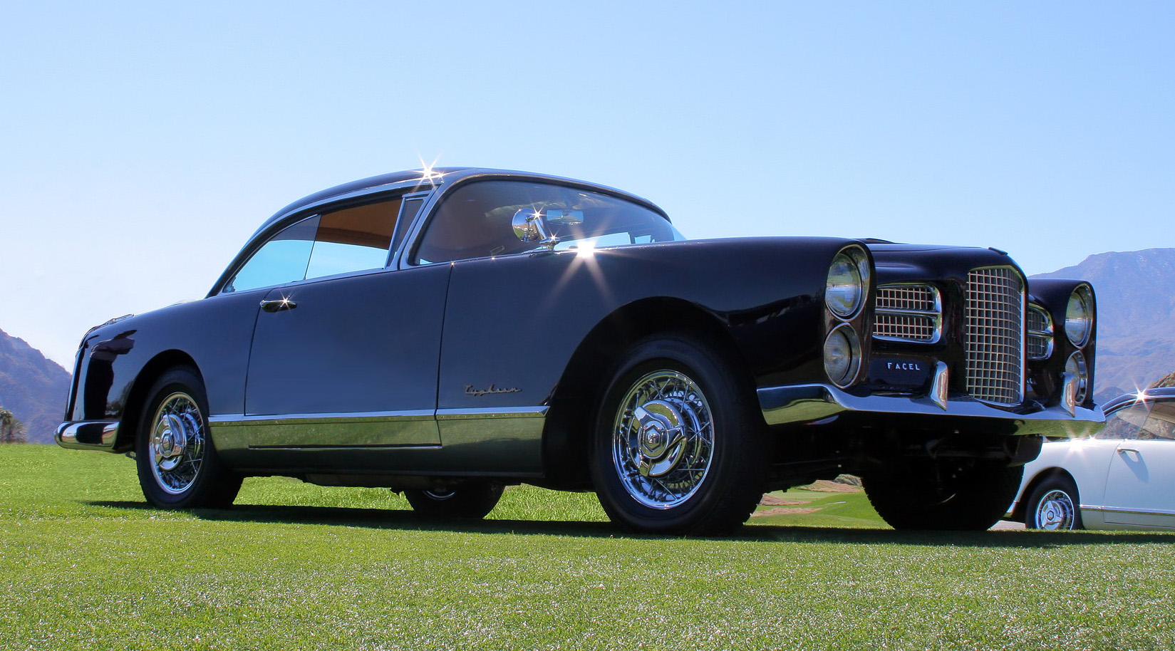 1957 Facel Vega FV4 Typhoon at the 2011 Desert Classic, La Quinta, CA